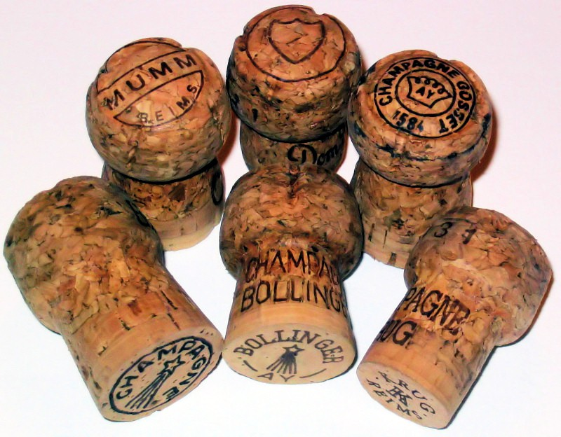 6 Champagne Corks. On front row (from left to right): a generic cork, Bollinger, Krug. On back row Mumm, Dom Pérignon, Gosset. The aging of the champagne post disgorgement can to some degree be told by the cork, as the longer it has been in the bottle the less it returns to is original cylinder shape. On the front line of this photo the youngest cork is on the left and the oldest on the right.